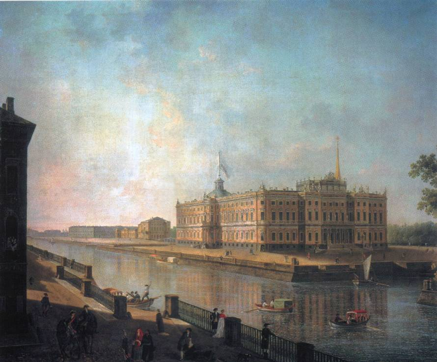 View onto St Michael's Castle in St. Petersburg from the Fontanka Side